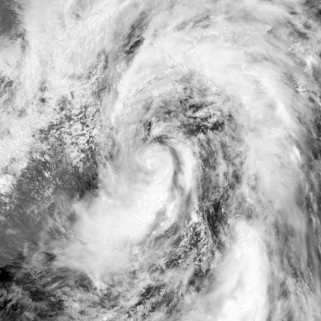 Severe Tropical Storm Meari (07W; Falcon) on June 25, 2011.